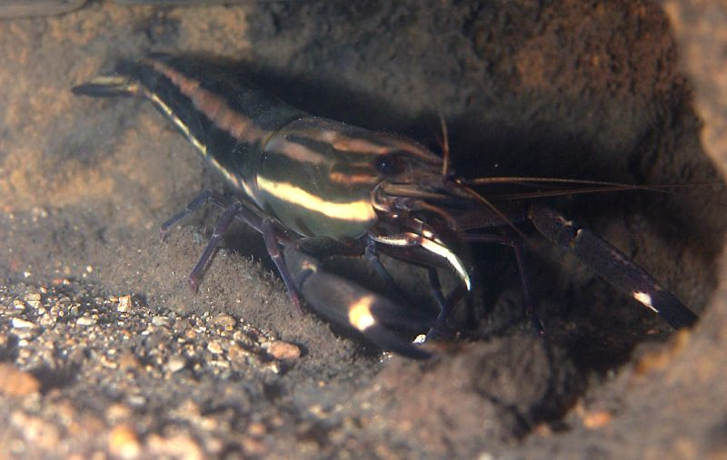 Taken at 10:30pm on the San Marcos River at Rio Vista falls. Not sure if it's the big claw river shrimp (Macrobrachium carcinus) or another Macrobrachium species. Canon 300D EWA-Marine housing